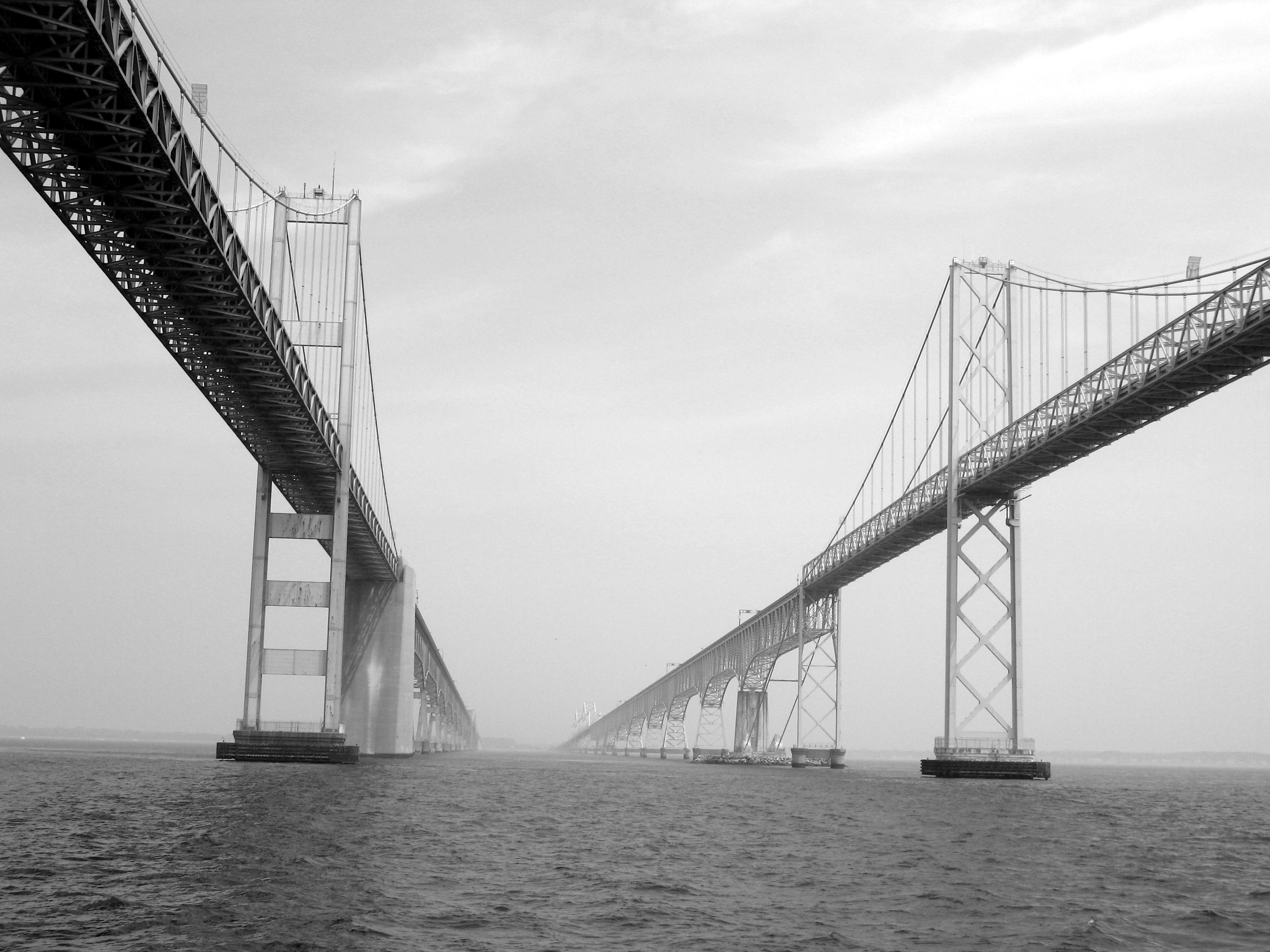 Chesapeake Bay Bridges